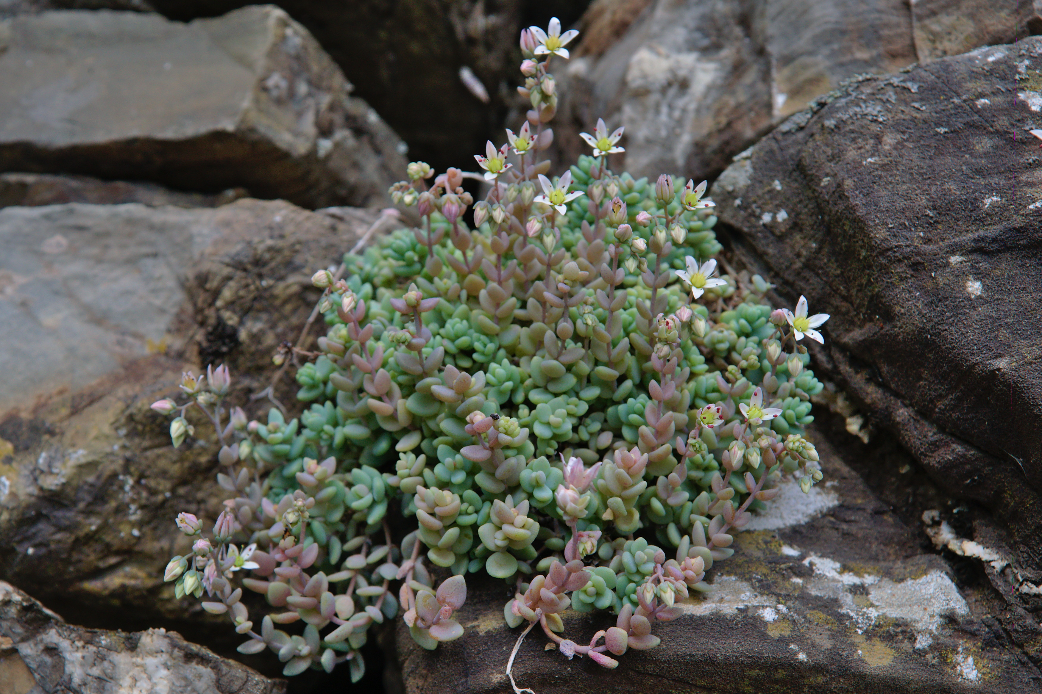 Corsican stonecrop along the Blue Trail at the Cinque Terre National Park.